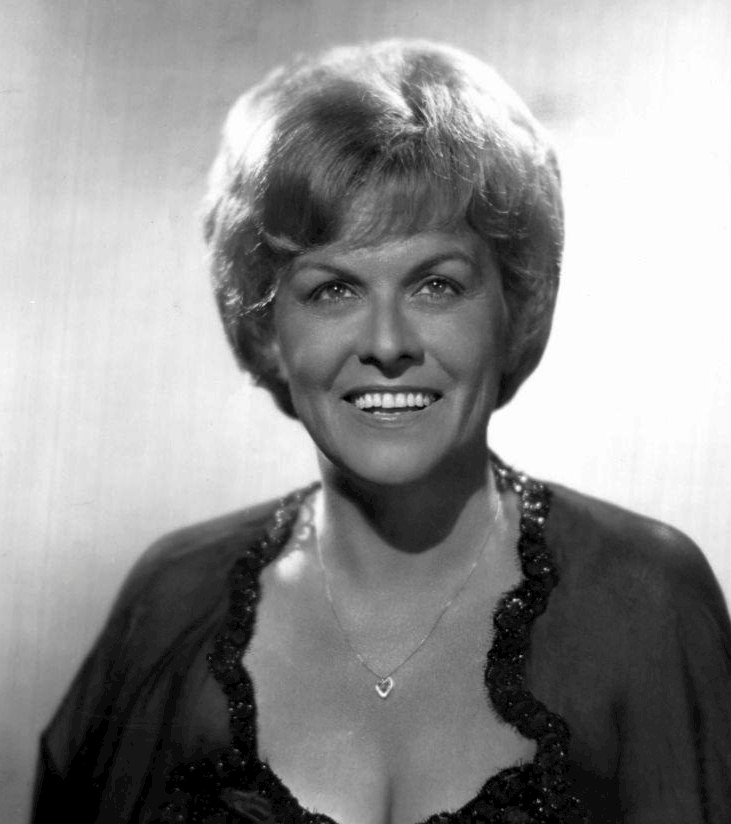 Publicity photo of singer Roberta Sherwood.